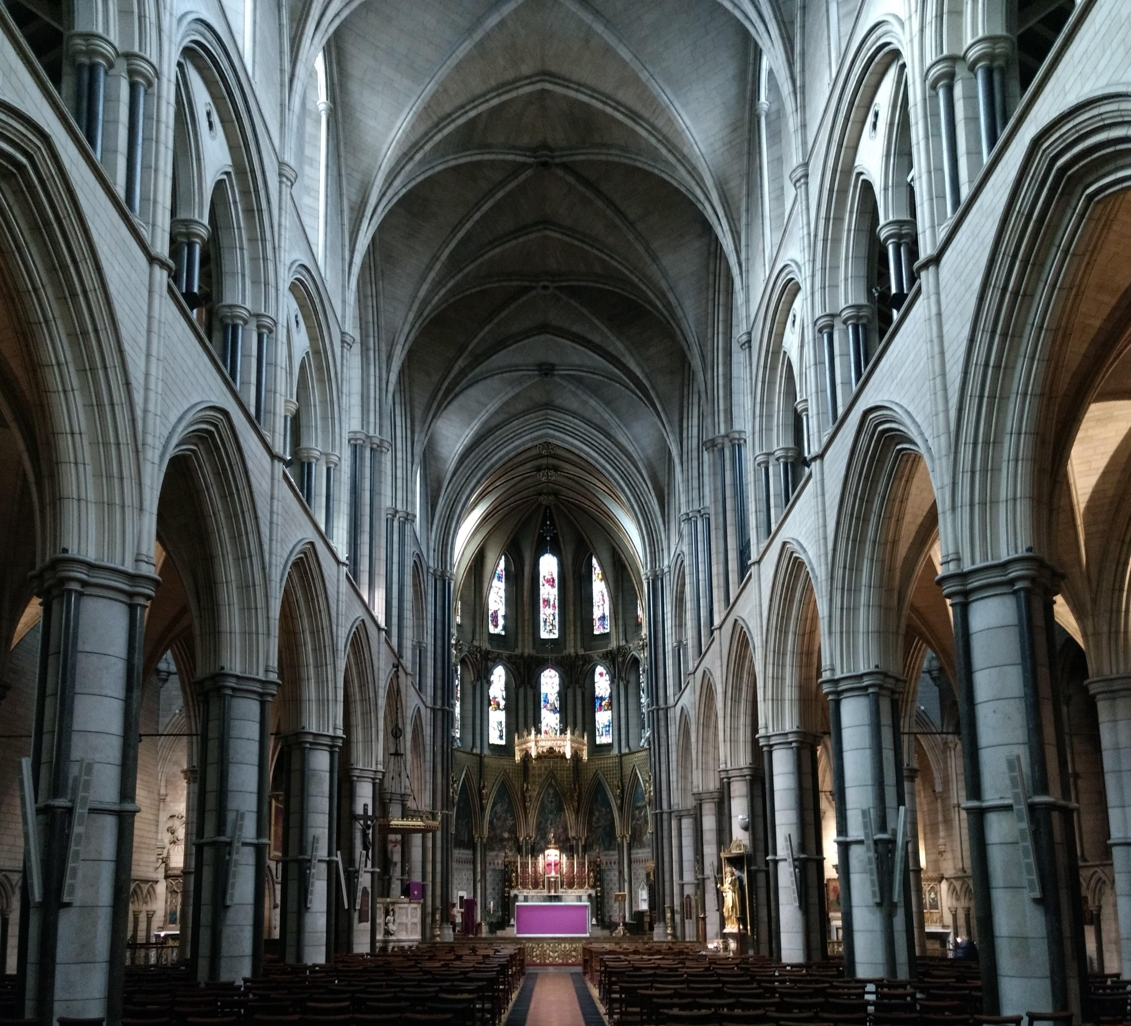 St James's Church, Spanish Place